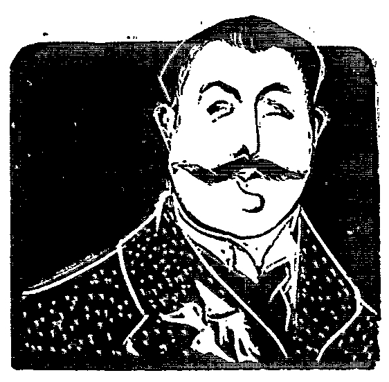 French writer Jean Lorrain (1855-1906) by Maurice Delcourt (1877-1917)